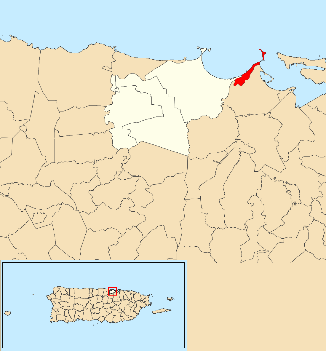 Palo Seco, Toa Baja, Puerto Rico locator map